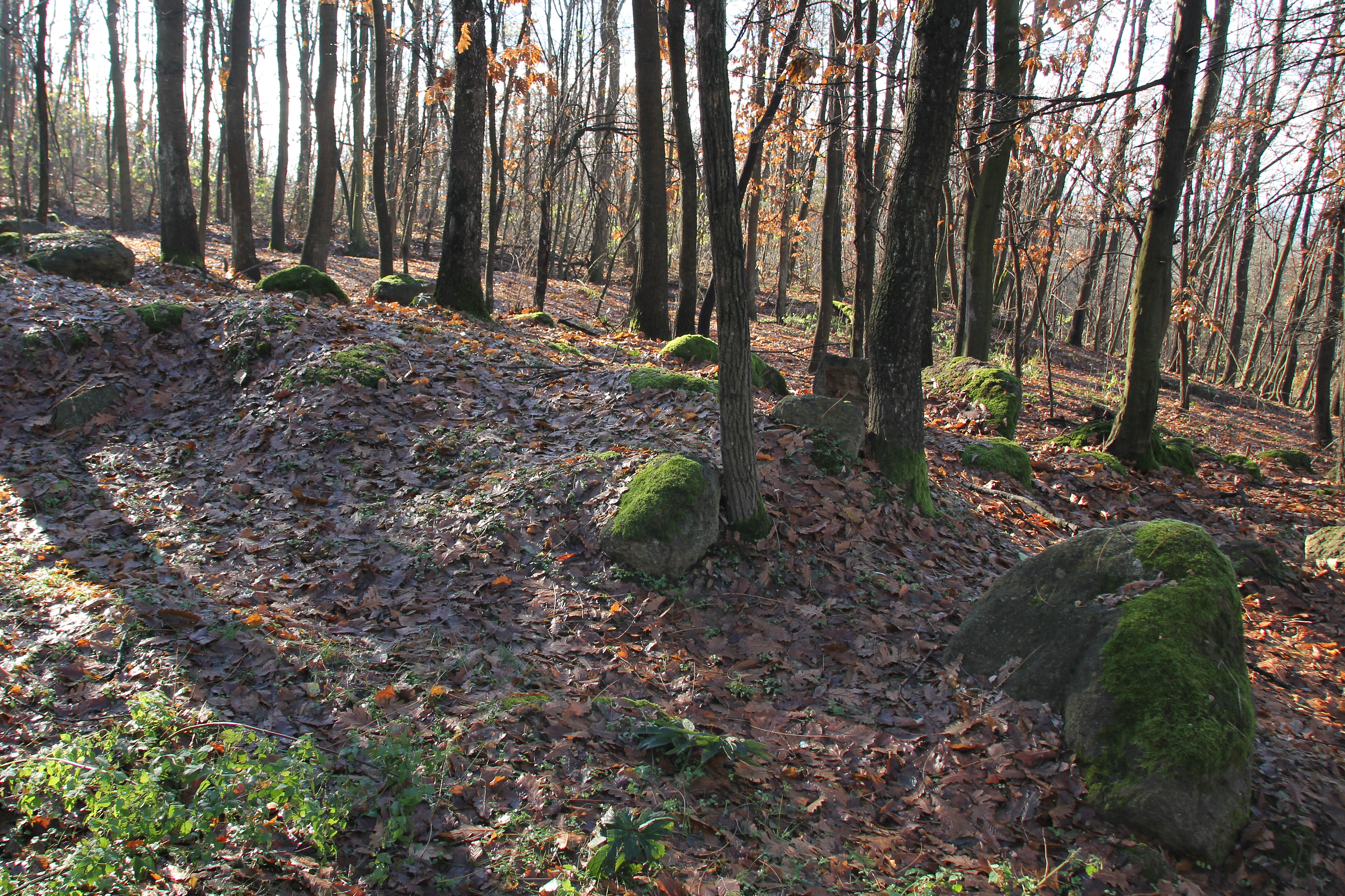 Surface rocks in the village of Grabovica near Gornji Milanovac, Serbia.